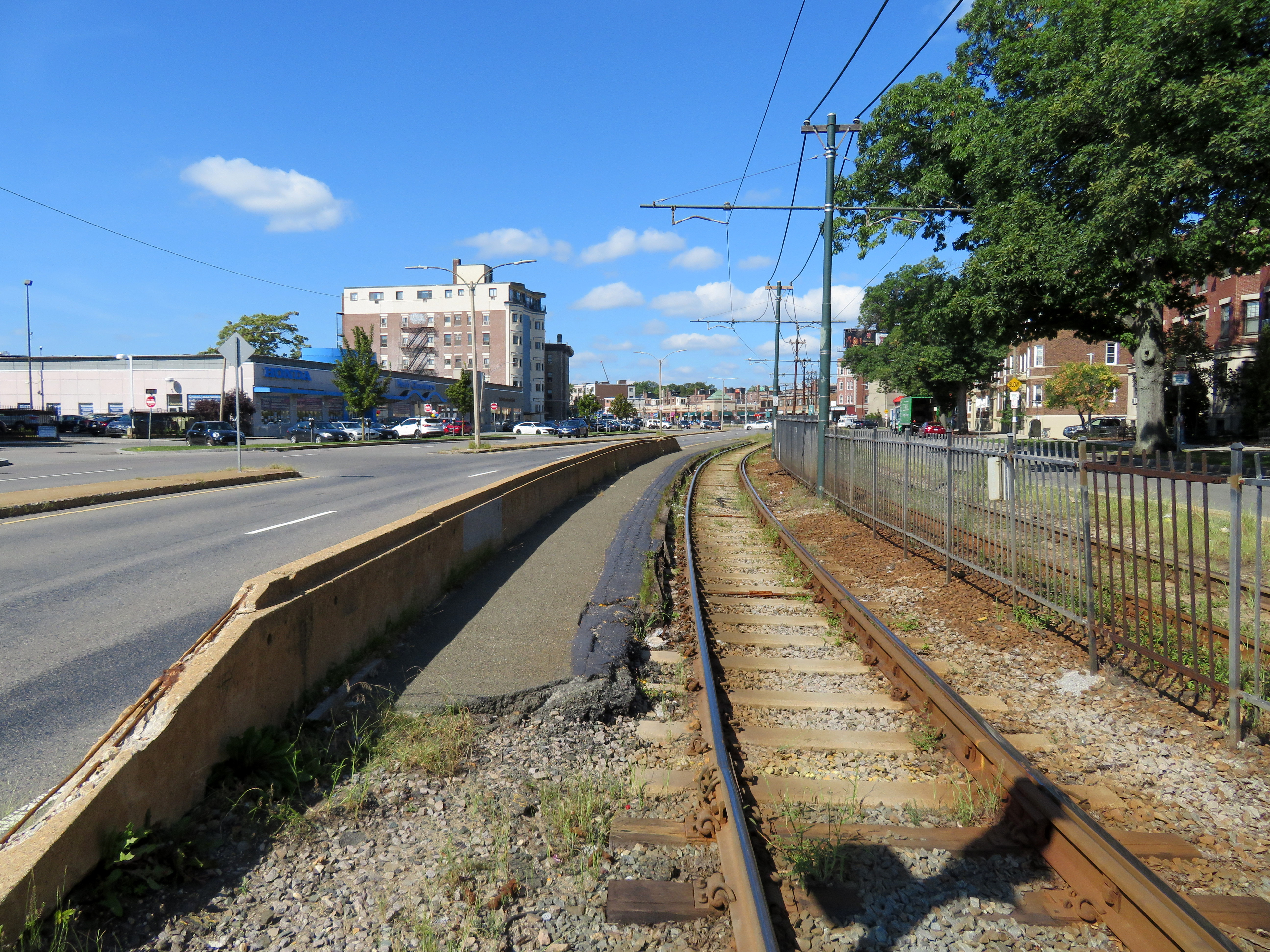 The former inbound platform at Fordham Road station in June 2017